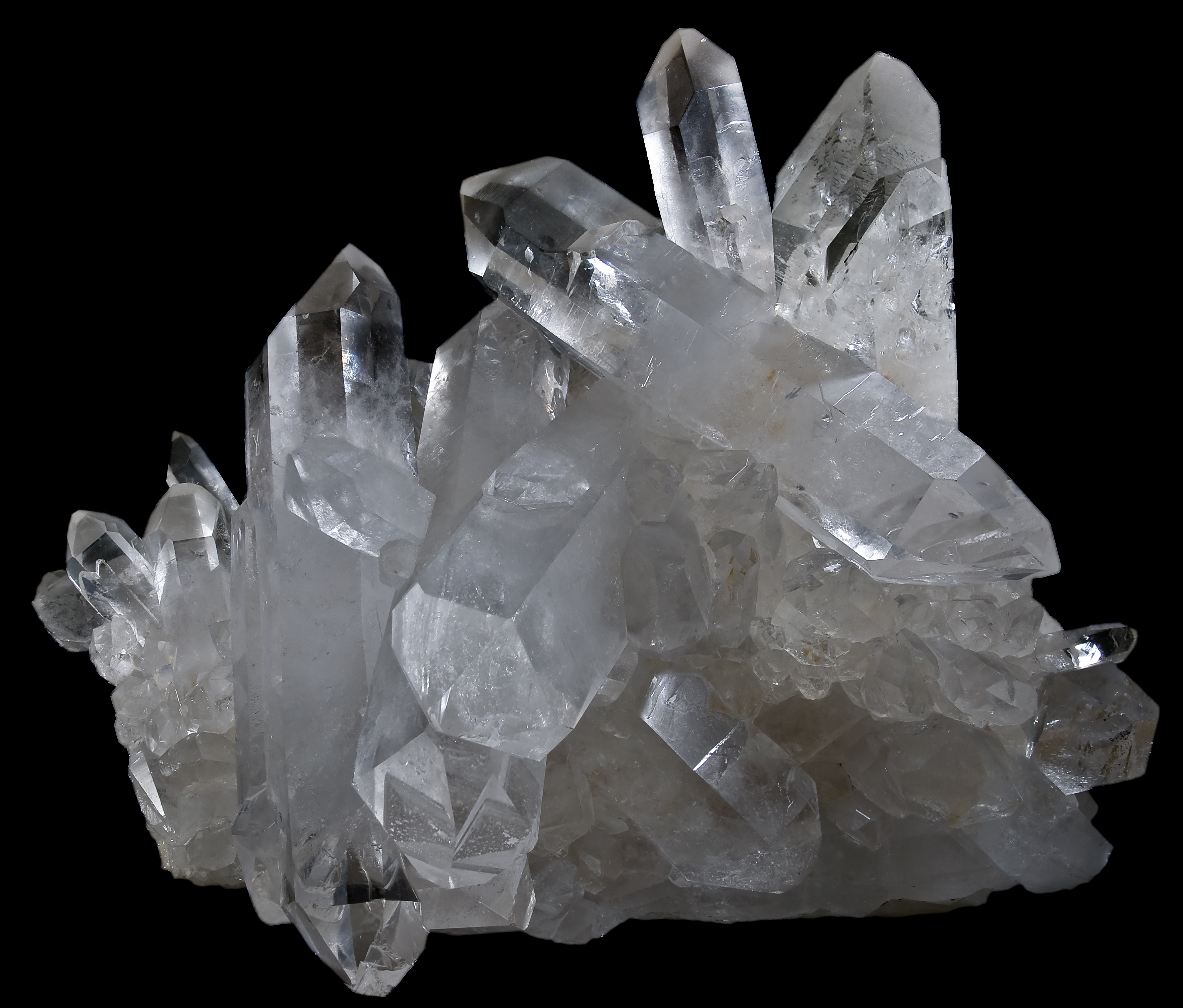 Quartz Location: Minas Gerais - Brasil Size : 18x15x13 cm